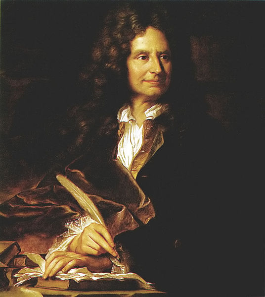 Portrait of Nicolas Boileau-Despréaux (1636-1711)